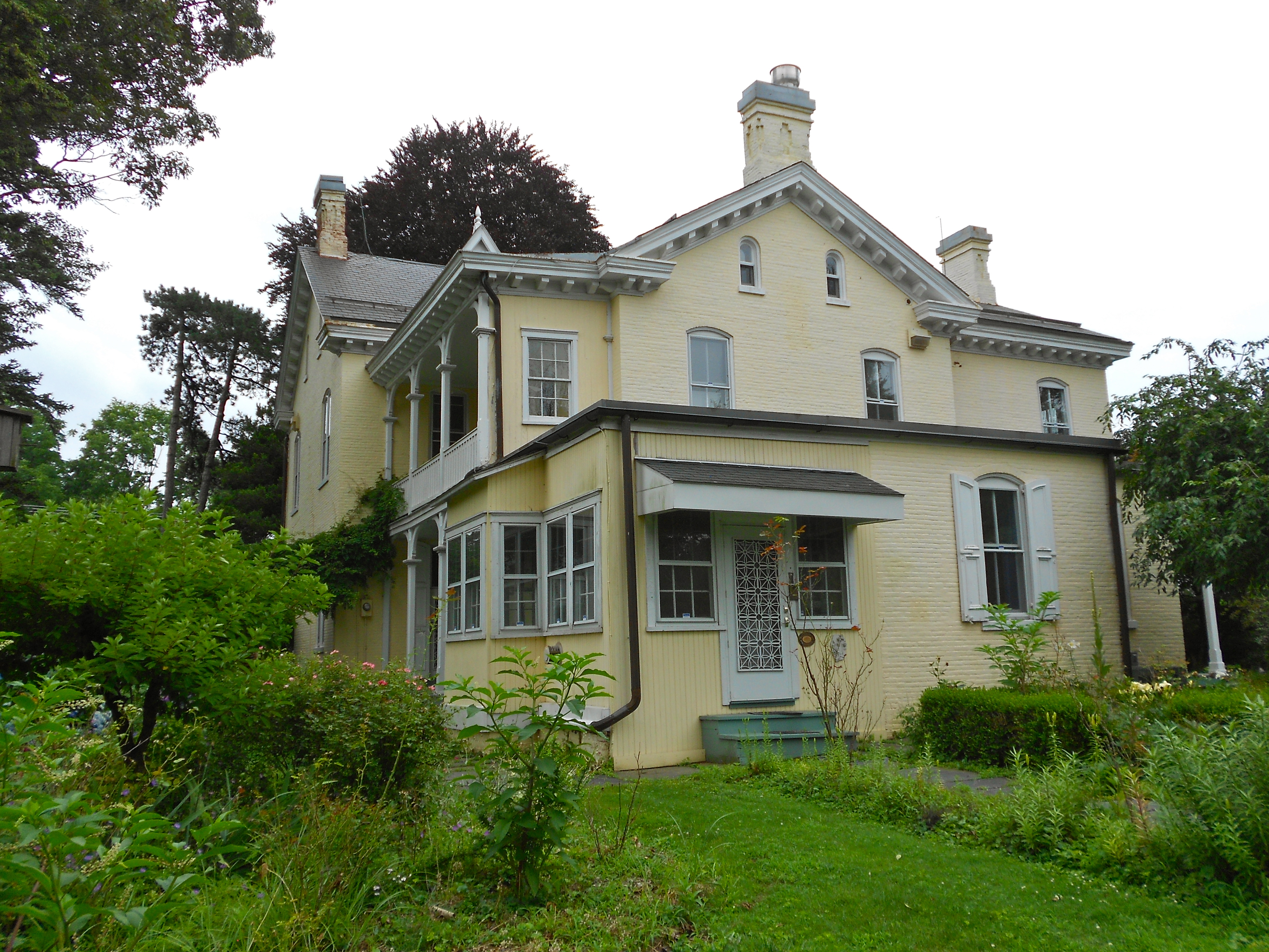 House in Bausman Farmstead on the NRHP since August 30, 1994 .1630 (barn) and 1631 (house) on Pennsylvania Route 999 (Millersville Pike), Lancaster Township, Lancaster County, Pennsylvania.